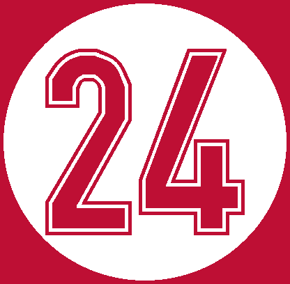 The number "24", retired for Tony Perez by the Cincinnati Reds.